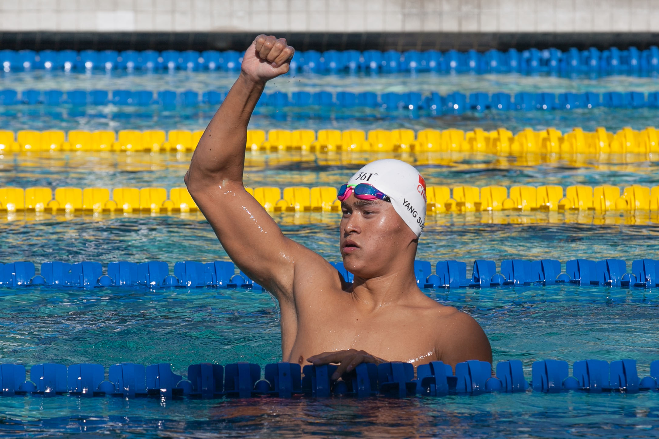 At the 2016 Santa Clara Arena Grand Prix. Noncommercial use only. Must credit: JD Lasica/Cruiseable